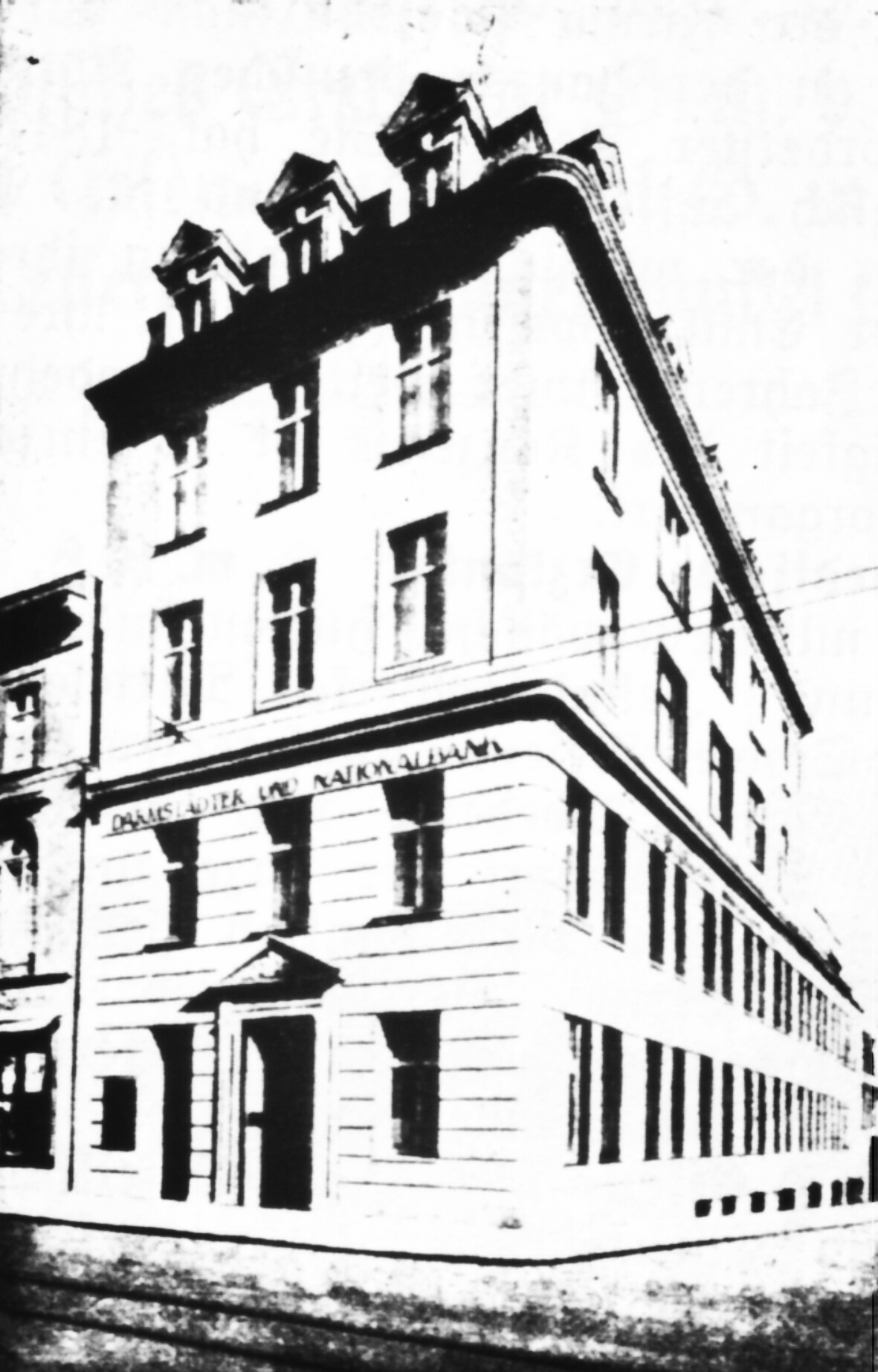 The building Breite Straße No. 85-87 in Lübeck, destroyed in 1942